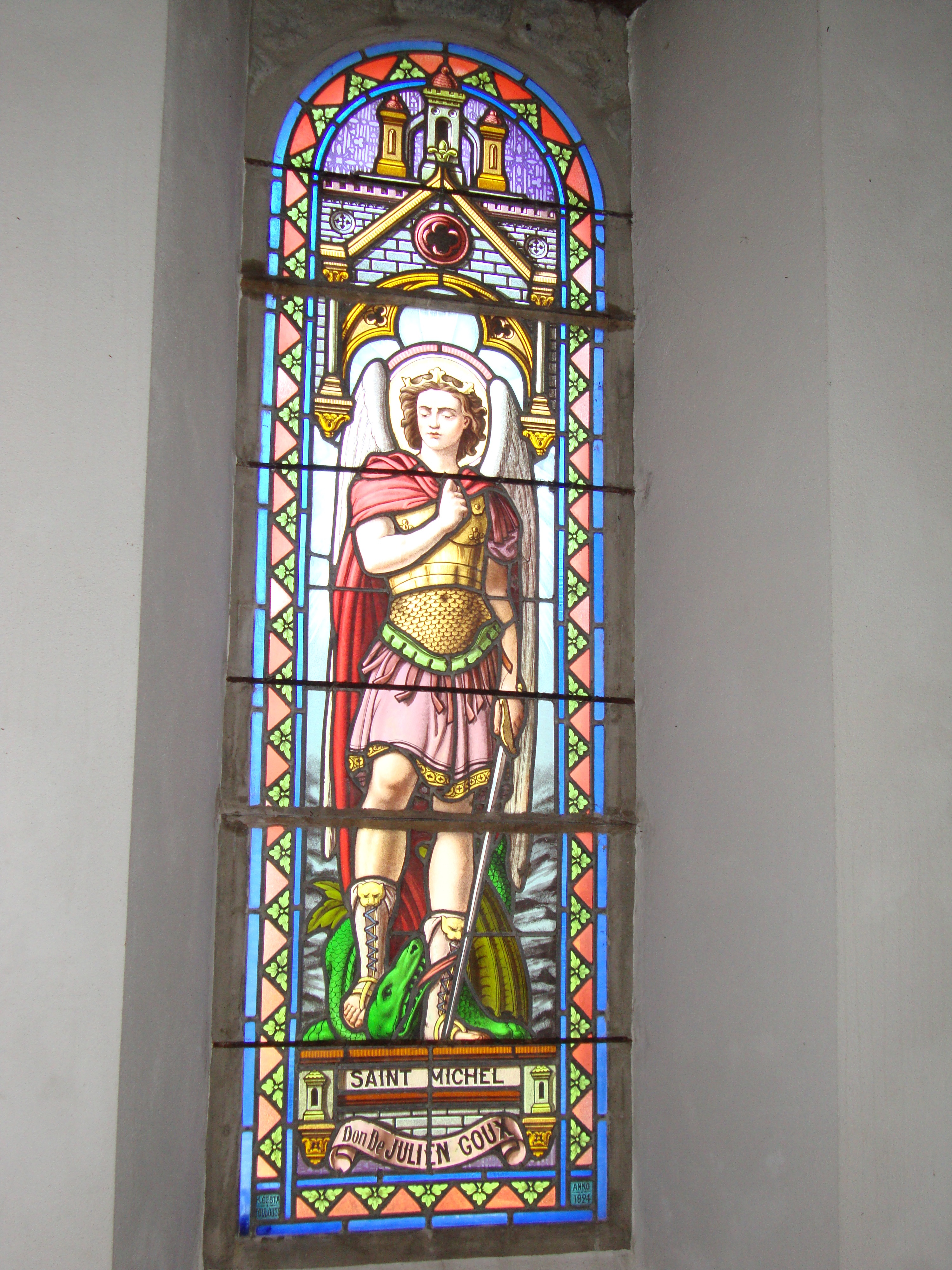 Licq (Licq-Athéry, Pyr-Atl, Fr) stained glass window of Saint Michael, signature: "H. GESTA TOULOUSE ANNO 1924"